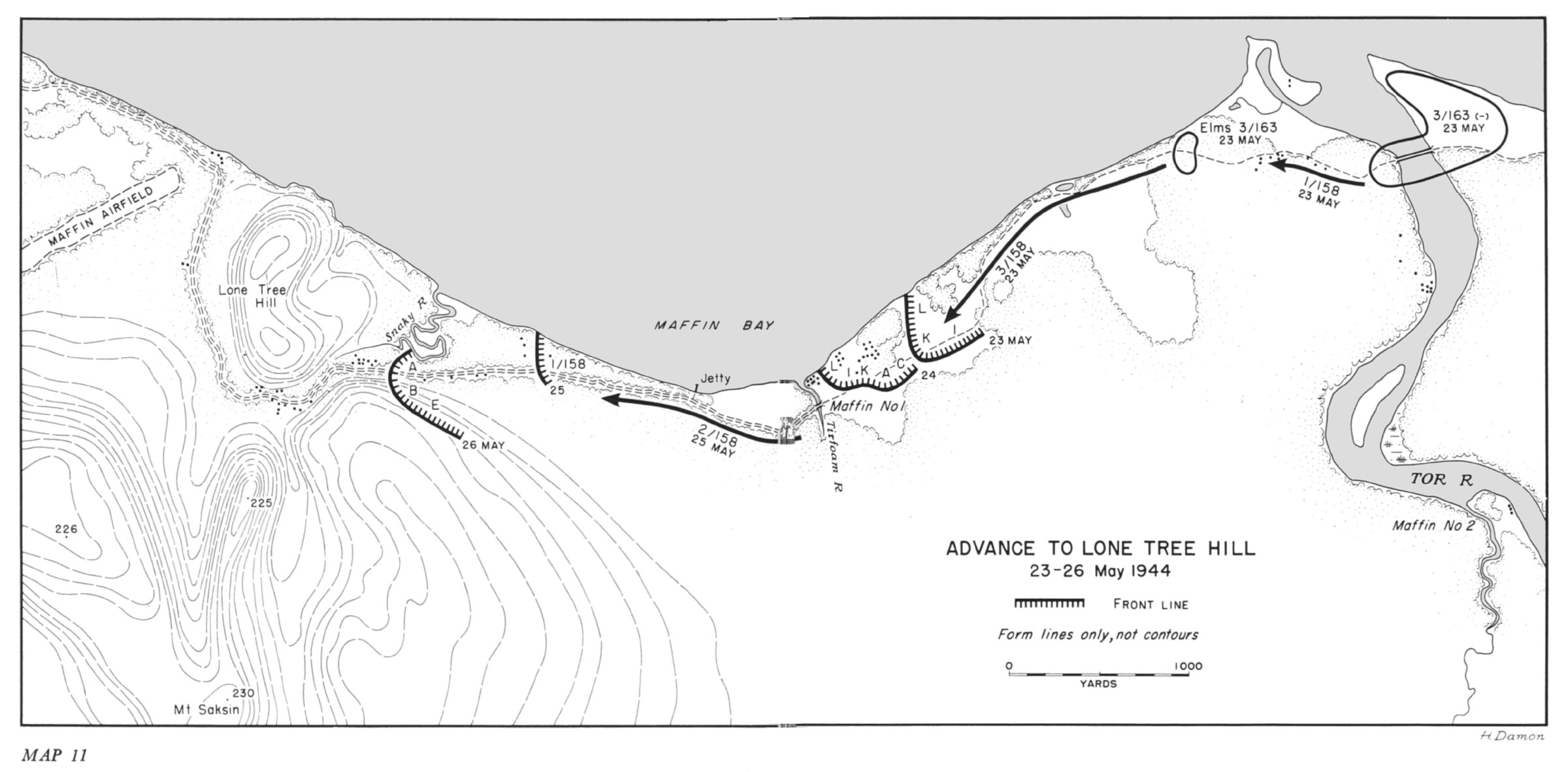 Advance to Lone Tree Hill, 23-26 May 1944